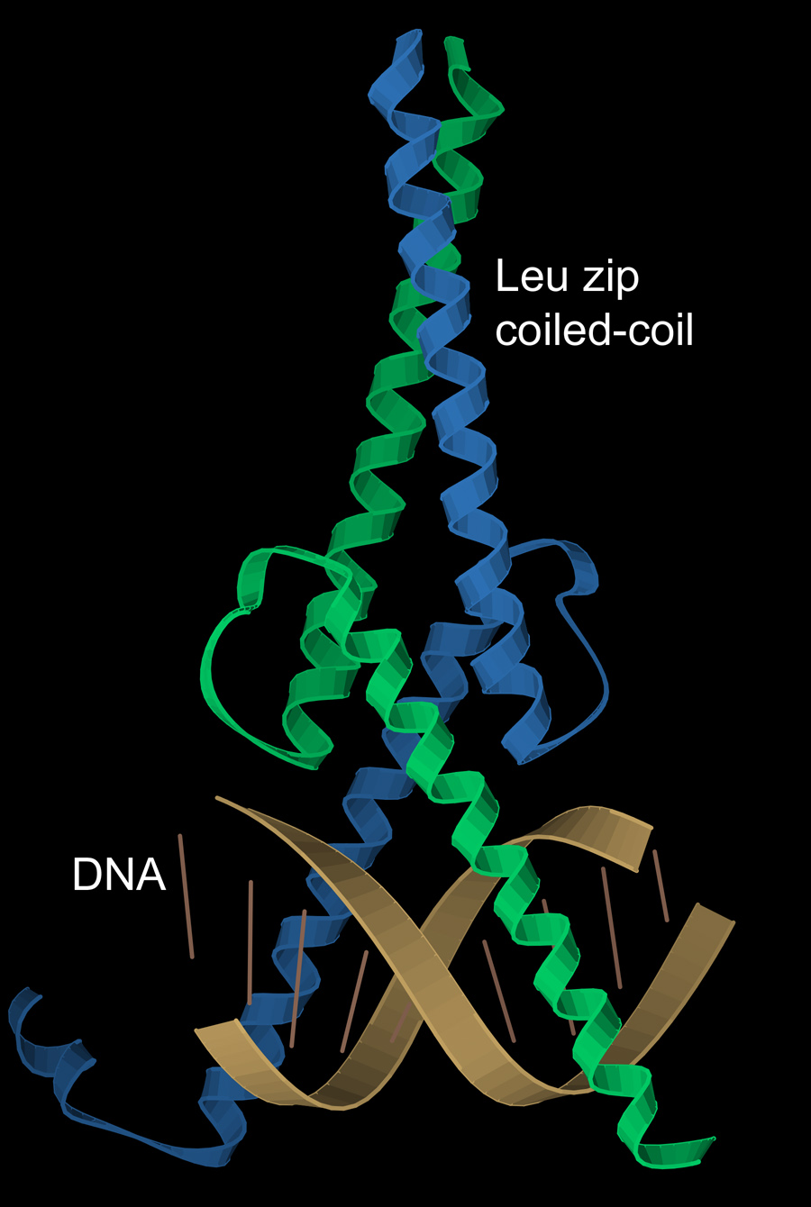 Transcription factor Max: coiled-coil Leu-zipper helix dimer above, and + charged DNA-binding helices below in major grooves. From PDB file 1HLO, displayed in KiNG.